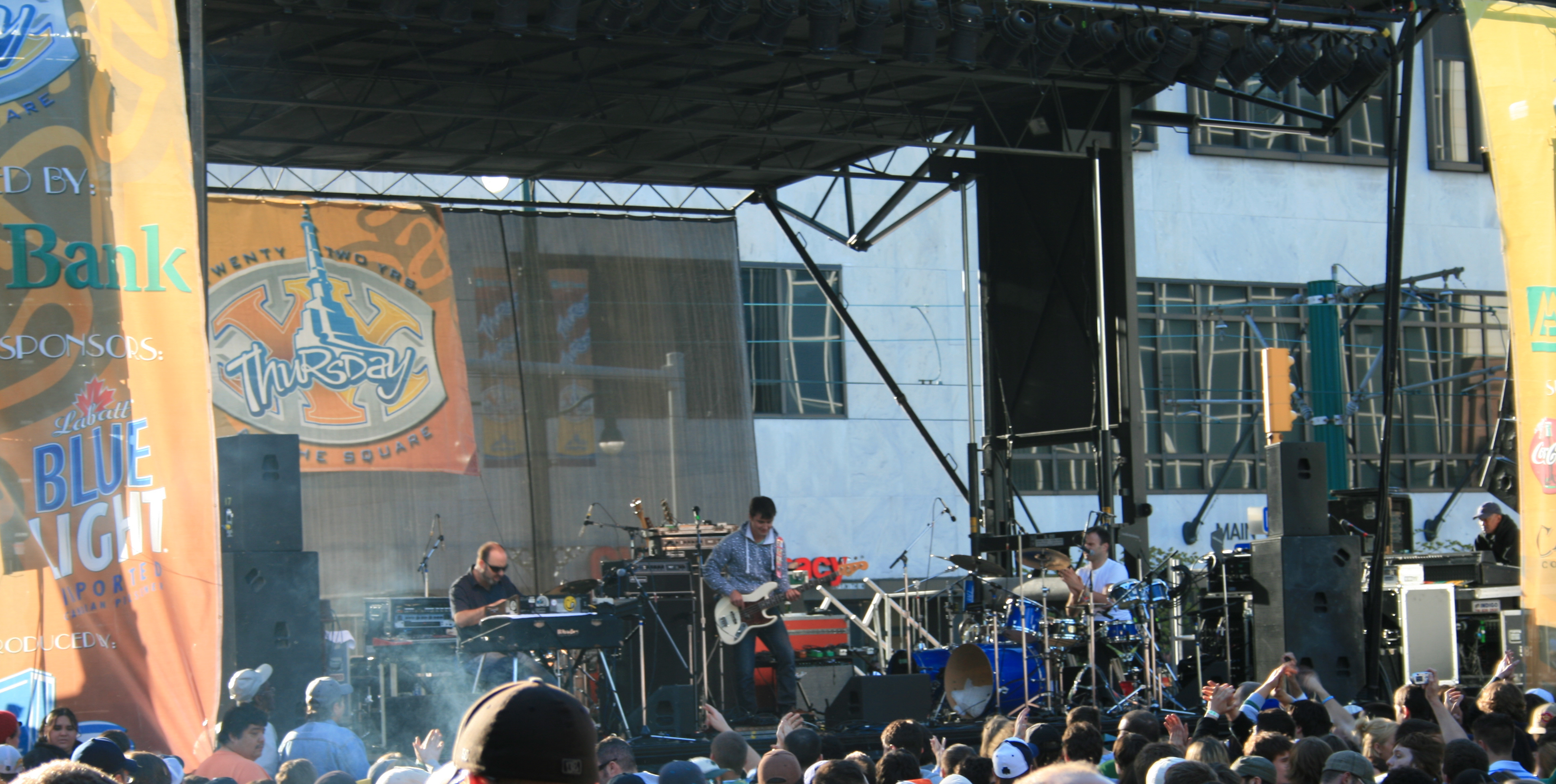 The New Deal playing at Thursday at the Square in downtown Buffalo, NY, USA on 29 May 2008